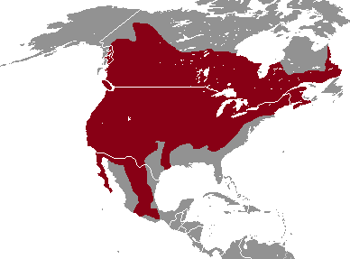 Peromyscus maniculatus range map